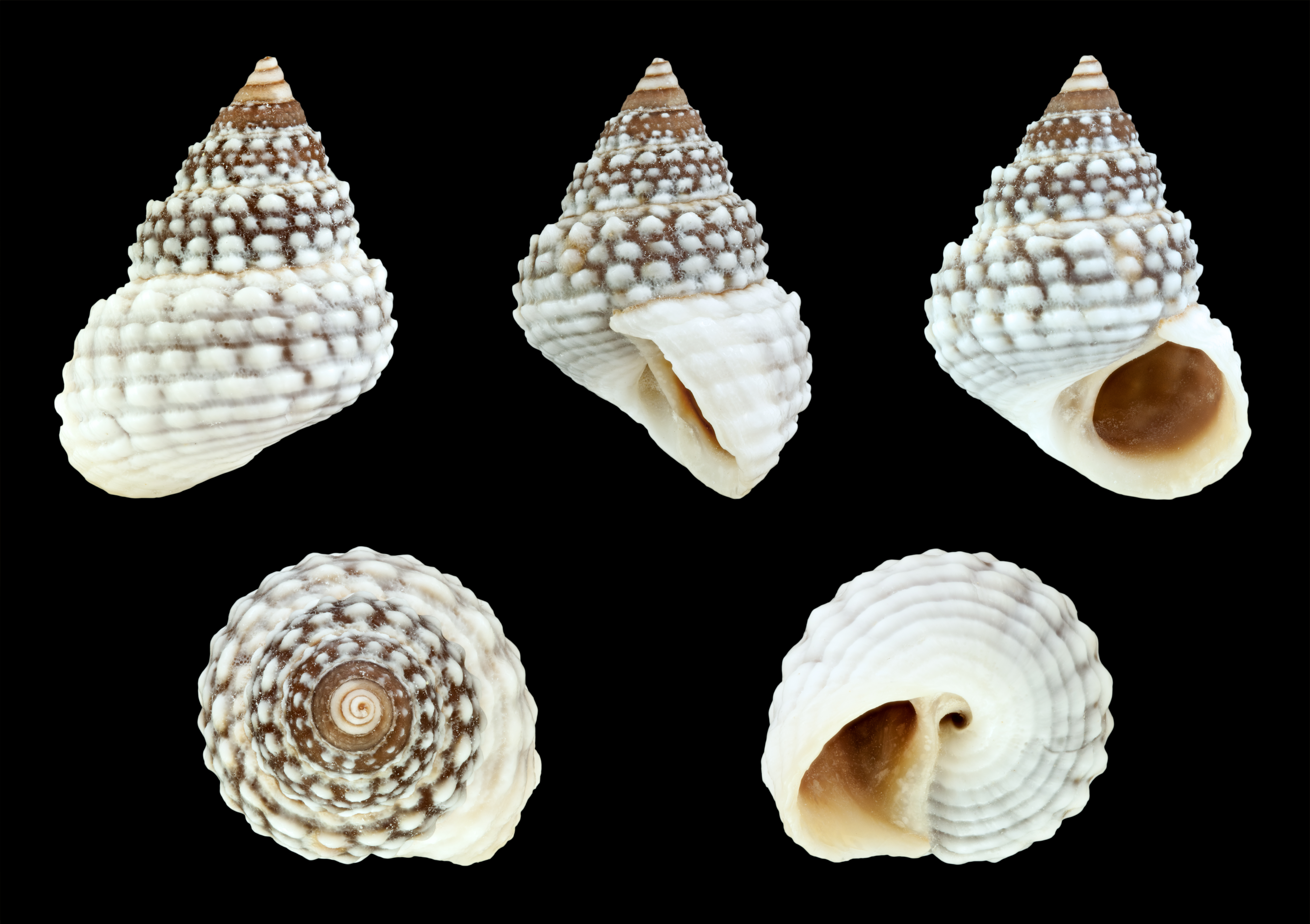 Cenchritis muricatus (Linné, 1758), Beaded Periwinkle; Height 2.0 cm; Originating from Florida, USA; Shell of own collection, therefore not geocoded.